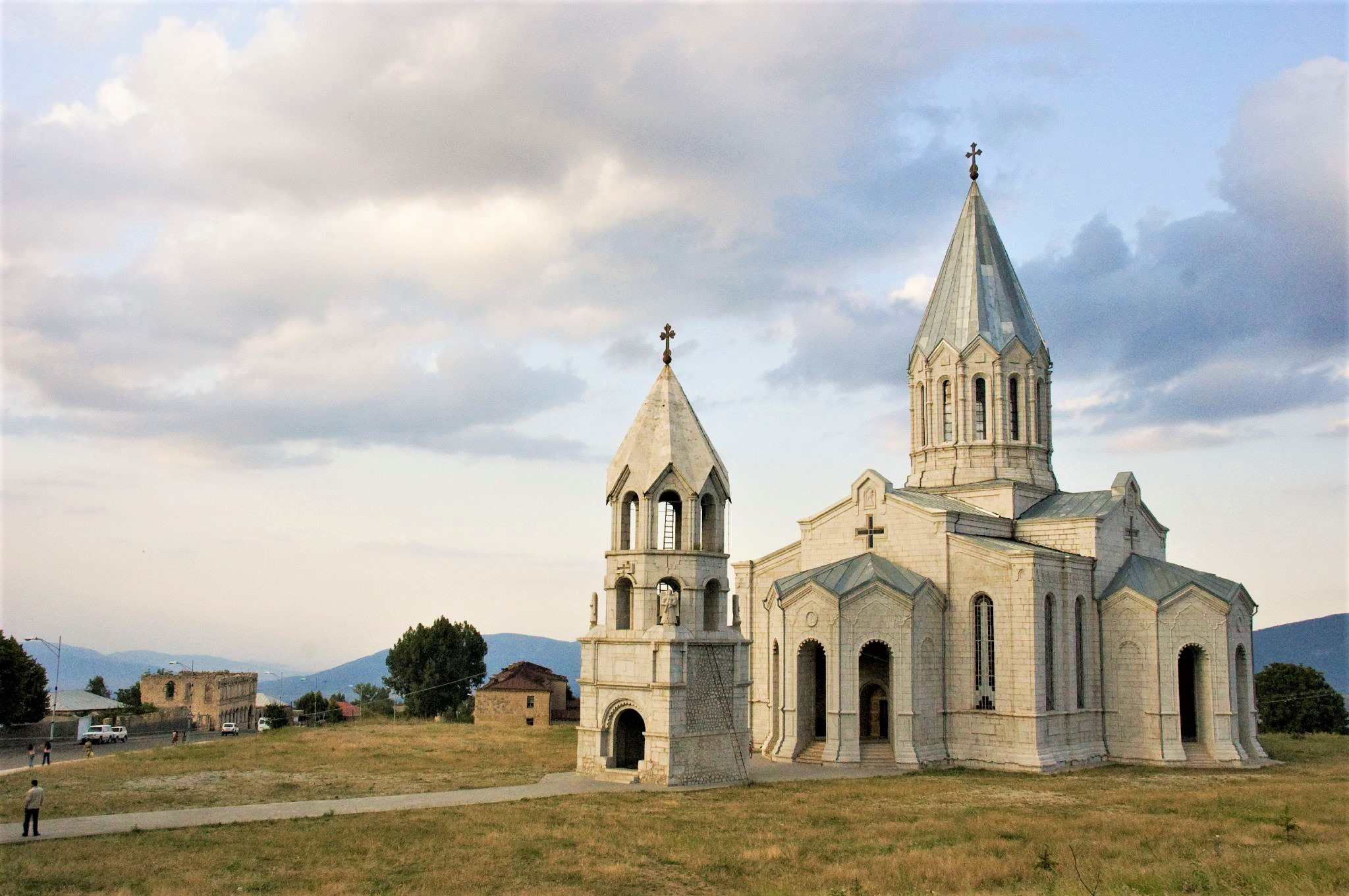 Ghazanchetsots Cathedral, in Shusha - Nagorno Karabakh, Azerbaijan.